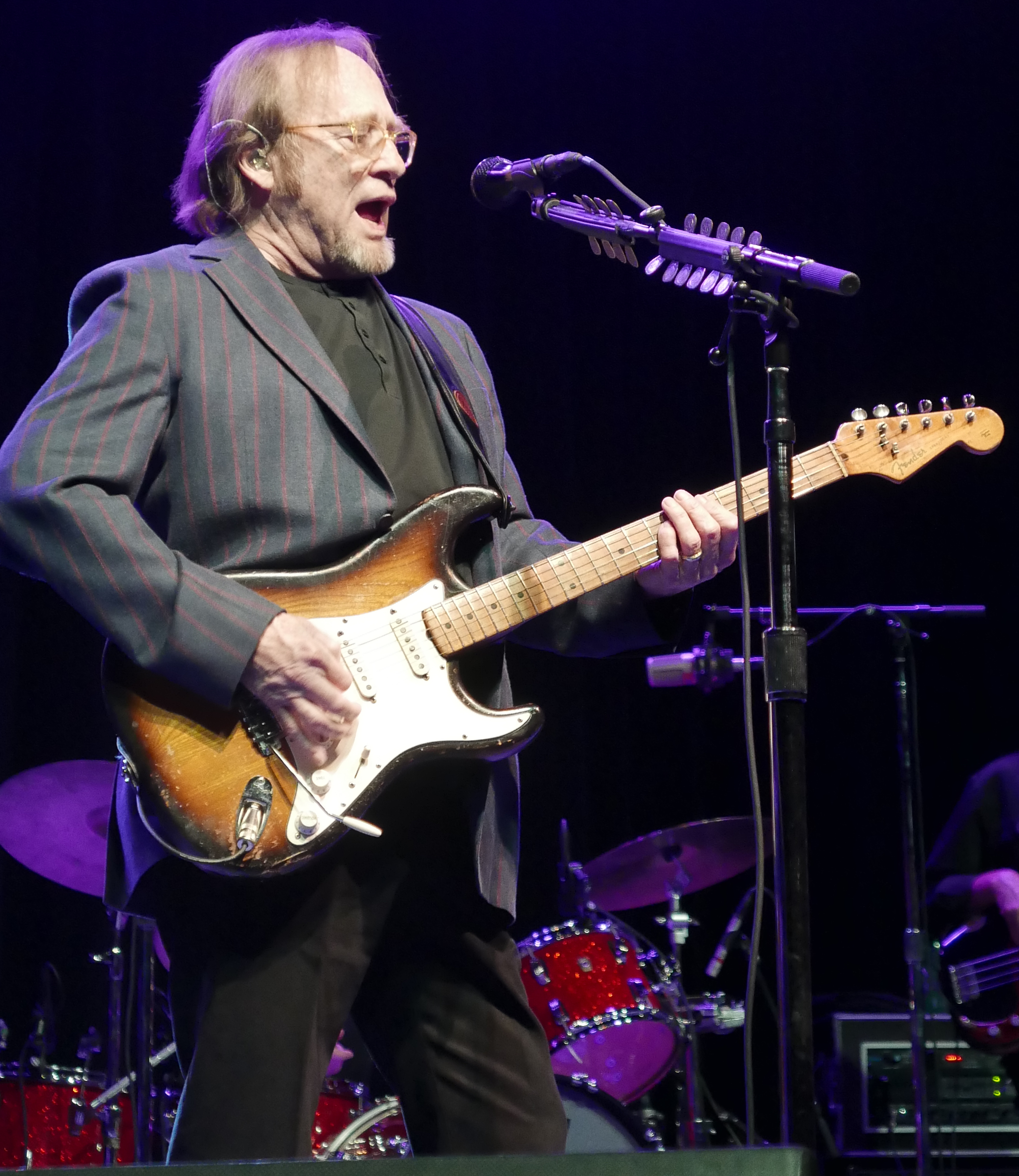 Stephen Stills, performing with The Rides, Berkeley, CA.